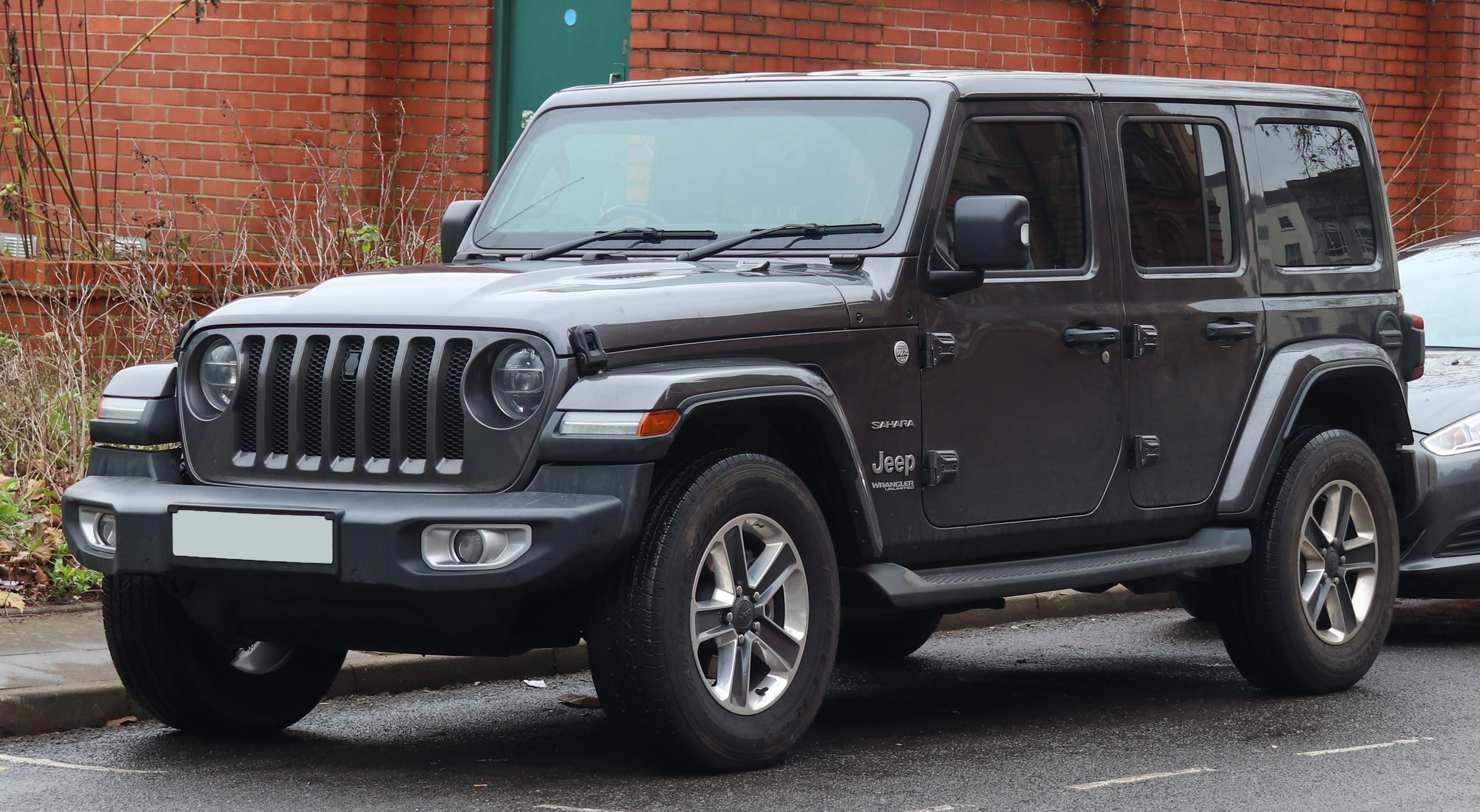 2018 Jeep Wrangler Sahara Unlimited Multijet 2.1 Front Taken in Leamington Spa